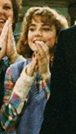 C13387-9, Dana Plato on the set of television show "Diff'rent Strokes".